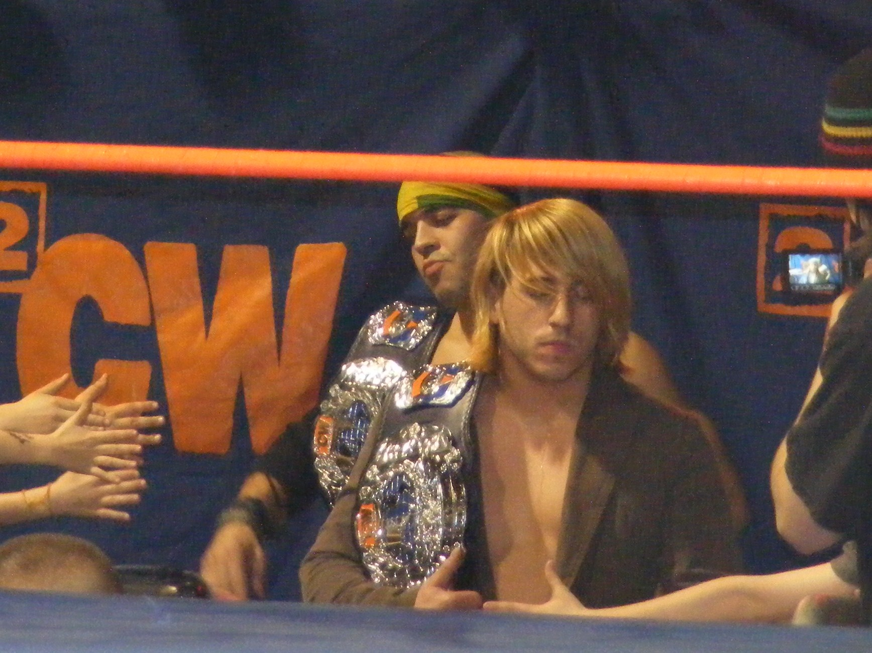 Up in Smoke (Cheech & Cloudy) as the 2CW Tag Team Champions prior to a 2CW show in Watertown on April 2, 2010.